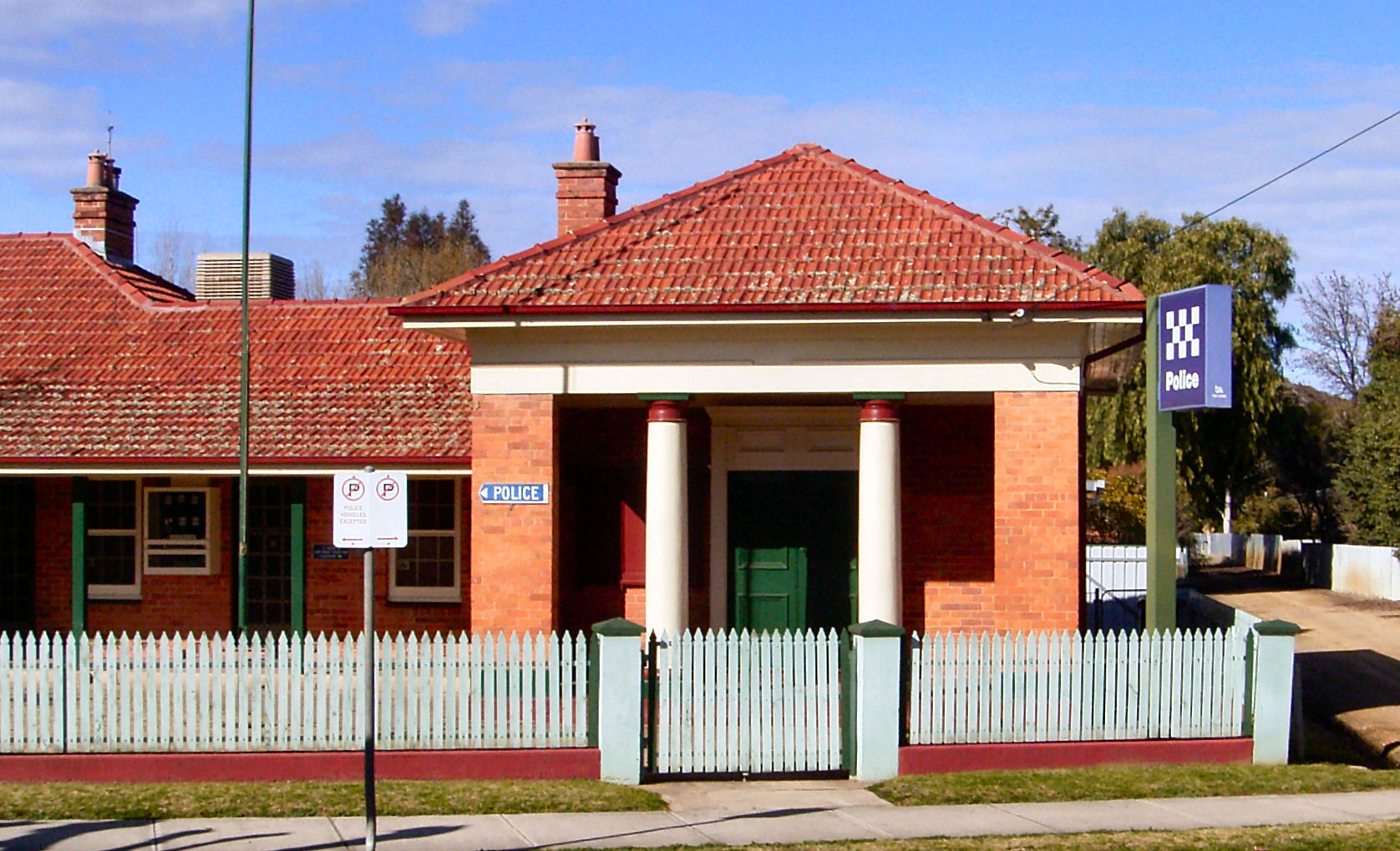 Former courthouse attached to Culcairn Police Station, Culcairn, New South Wales, Australia.